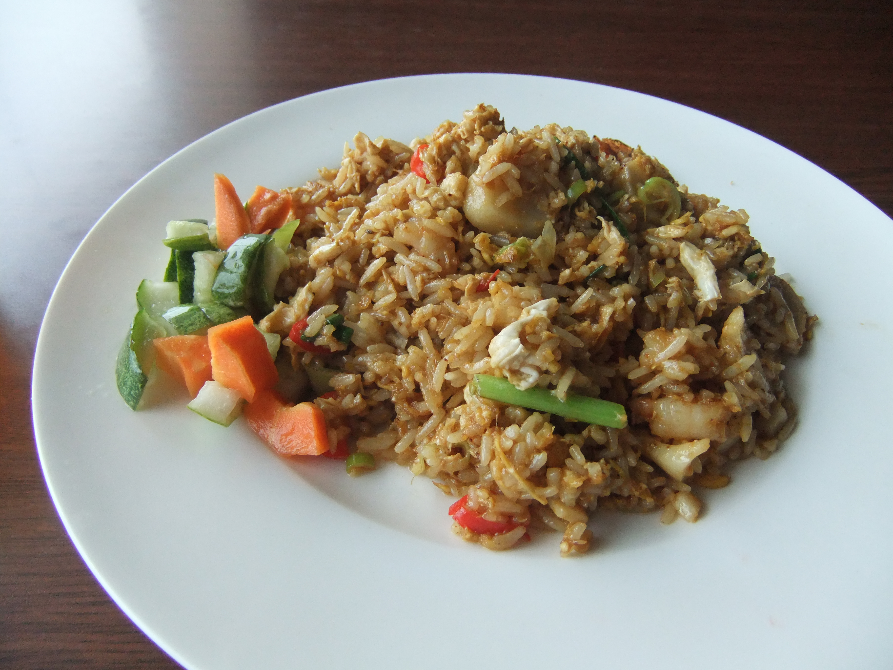 Nasi Goreng